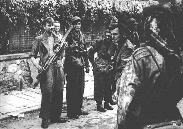 Warsaw Uprising: Soldiers from "Czata 49" Battalion after a several hour sewer march from Krasińskich Square to Warecka street in Śródmieście district, early morning on September 2, 1944. Standing with German MG 42 is Antoni Kłopocki "Dąbek".